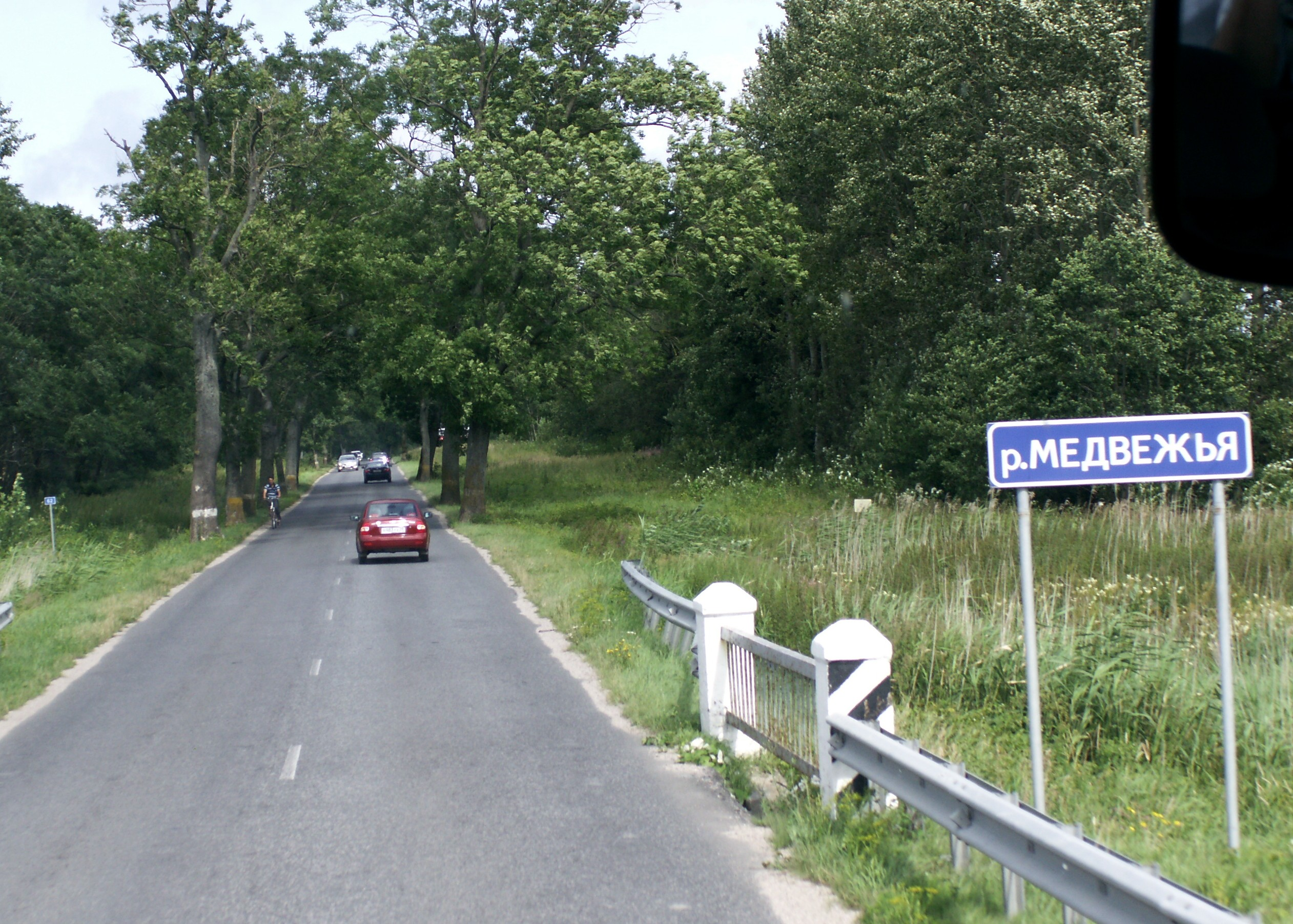 Klintsovka, Kaliningrad oblast